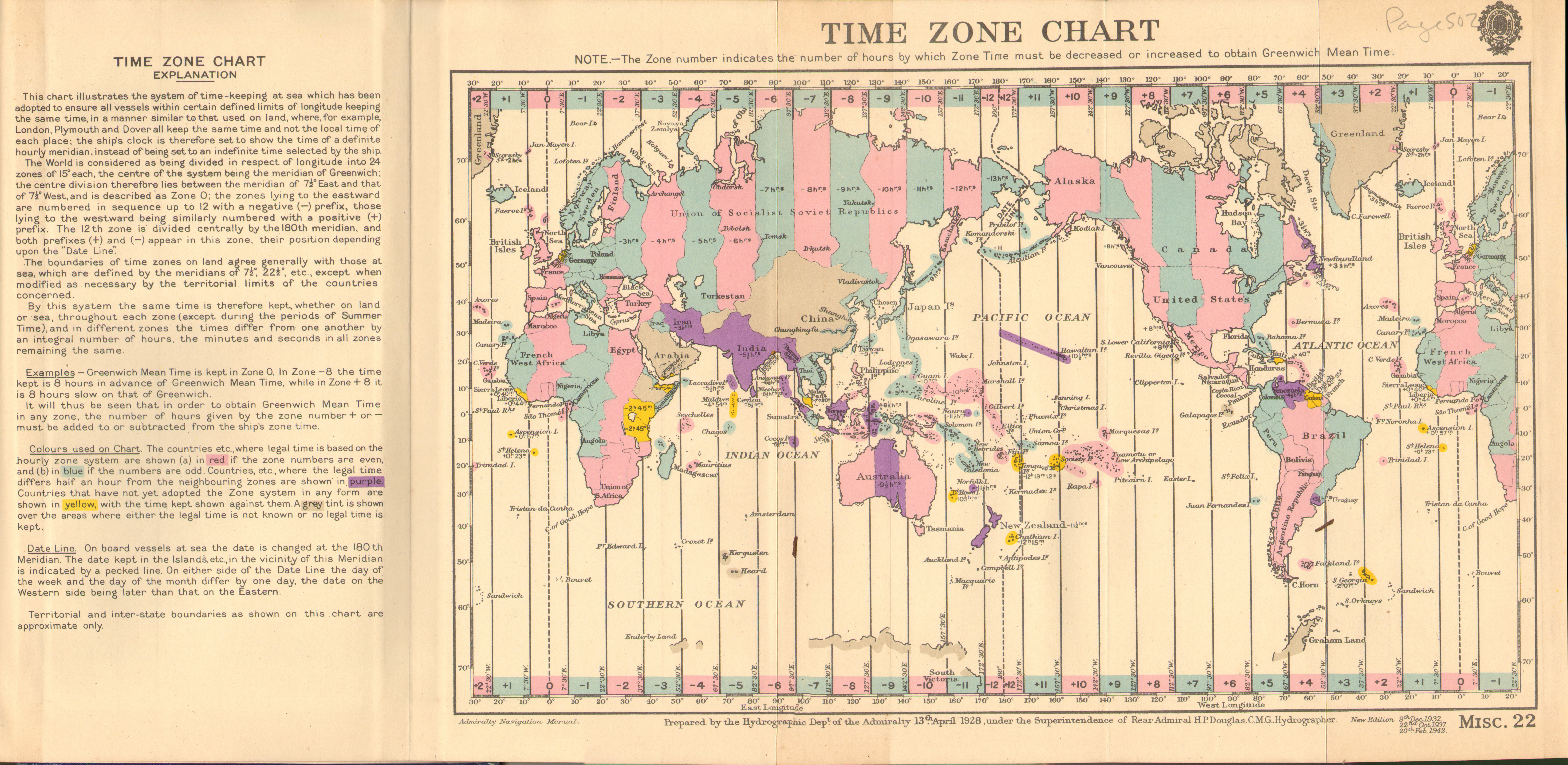 Time Zone Chart of the World. Originally published 1928, New Edition 1942. Reproduced in: Admiralty Navigation Manual Vol 1 (1938)